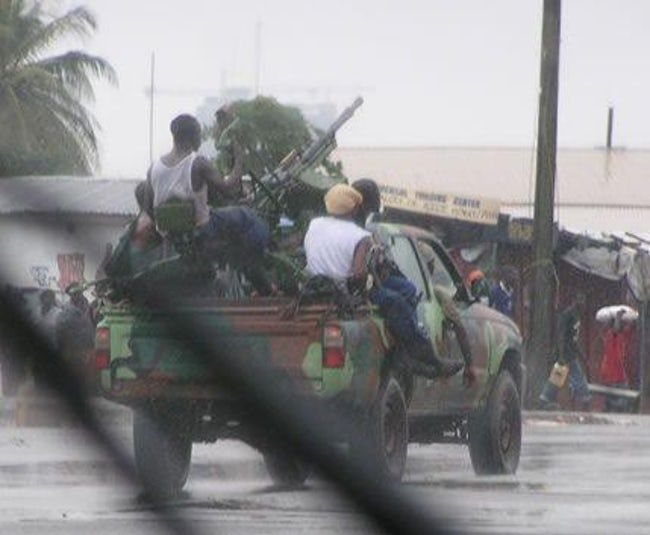 A "technical", a Pickup truck with a mounted machinegun, in Liberia